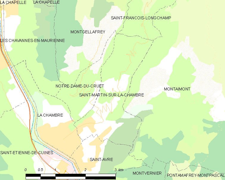 Map of French municipality